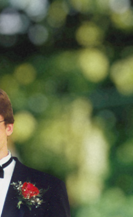 An example picture for Wikipedia:Talk:Gaussian blur, a faux bokeh created in post-processing, from the original Image:Faux-bokeh-original.png